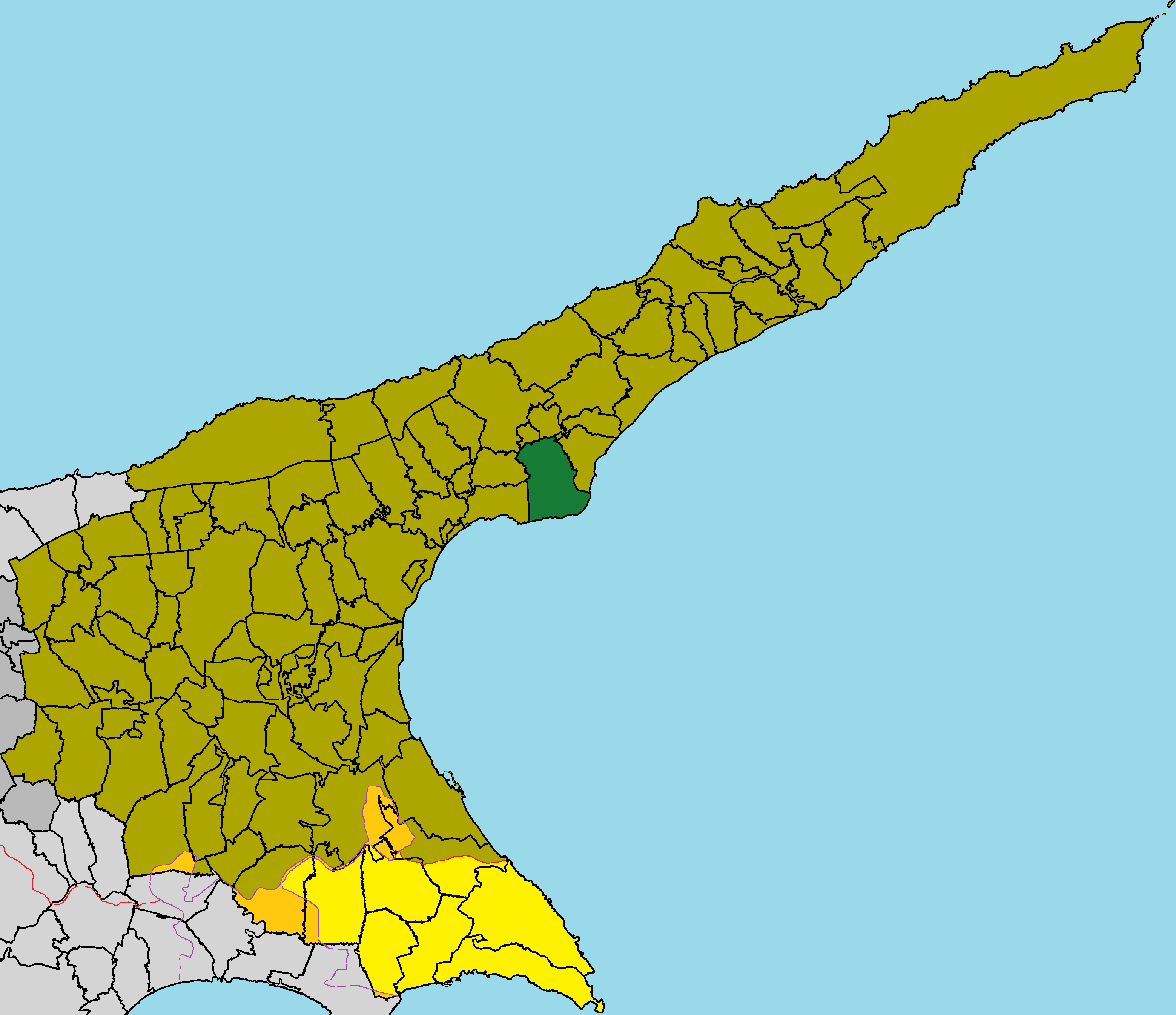 Agios Theodoros in Famagusta District (de jure).